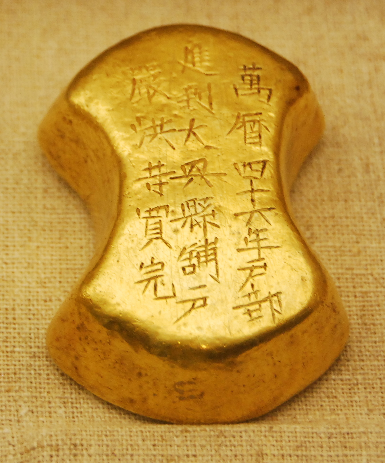 A gold ingot unearthed from the tomb of the Ming dynasty Wànlì emperor (ruled 1572-1620), kept at the Ming tombs heritage site.